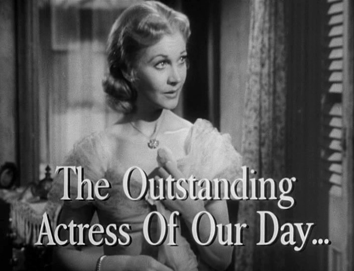 Cropped screenshot of Vivien Leigh from the trailer for the film A Streetcar Named Desire